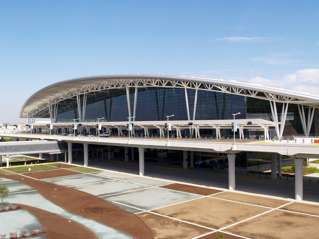 Photo of the completed Indianapolis International Airport midfield terminal. Front elevation photo. Taken on Oct 11th, 2008 by Dan Hammer (self).